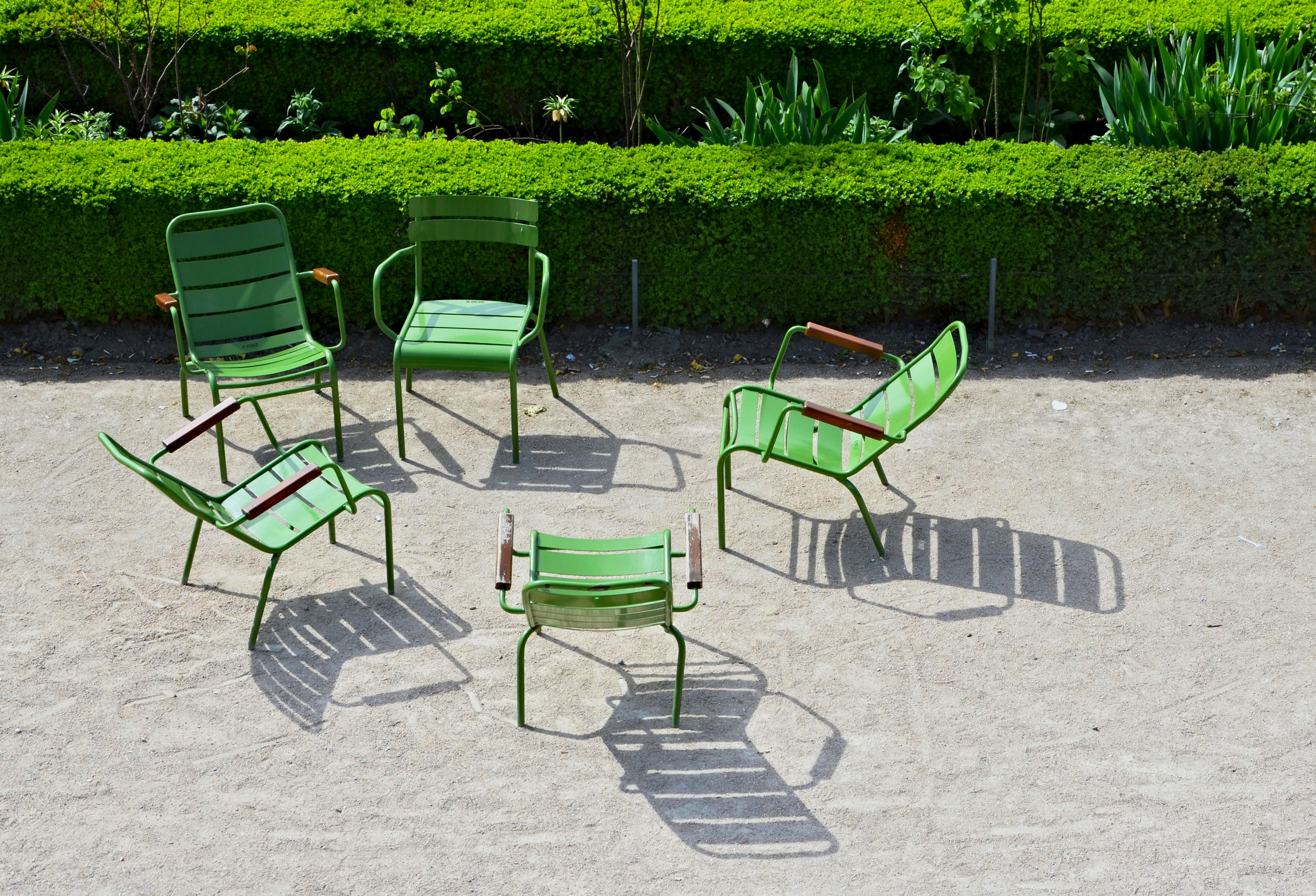 Hedges and chairs in the jardin des Tuileries, Paris (1st arr.)